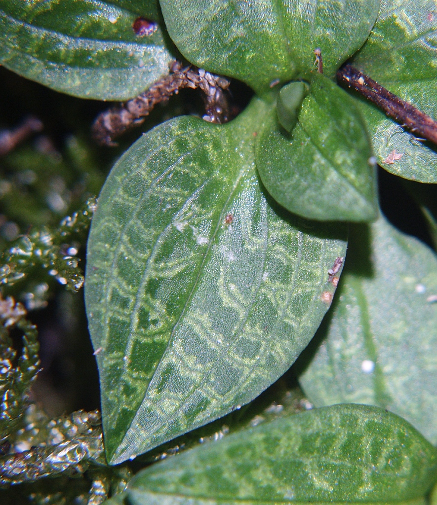 Goodyera repens, single leaf, Badisch-Franken, Germany